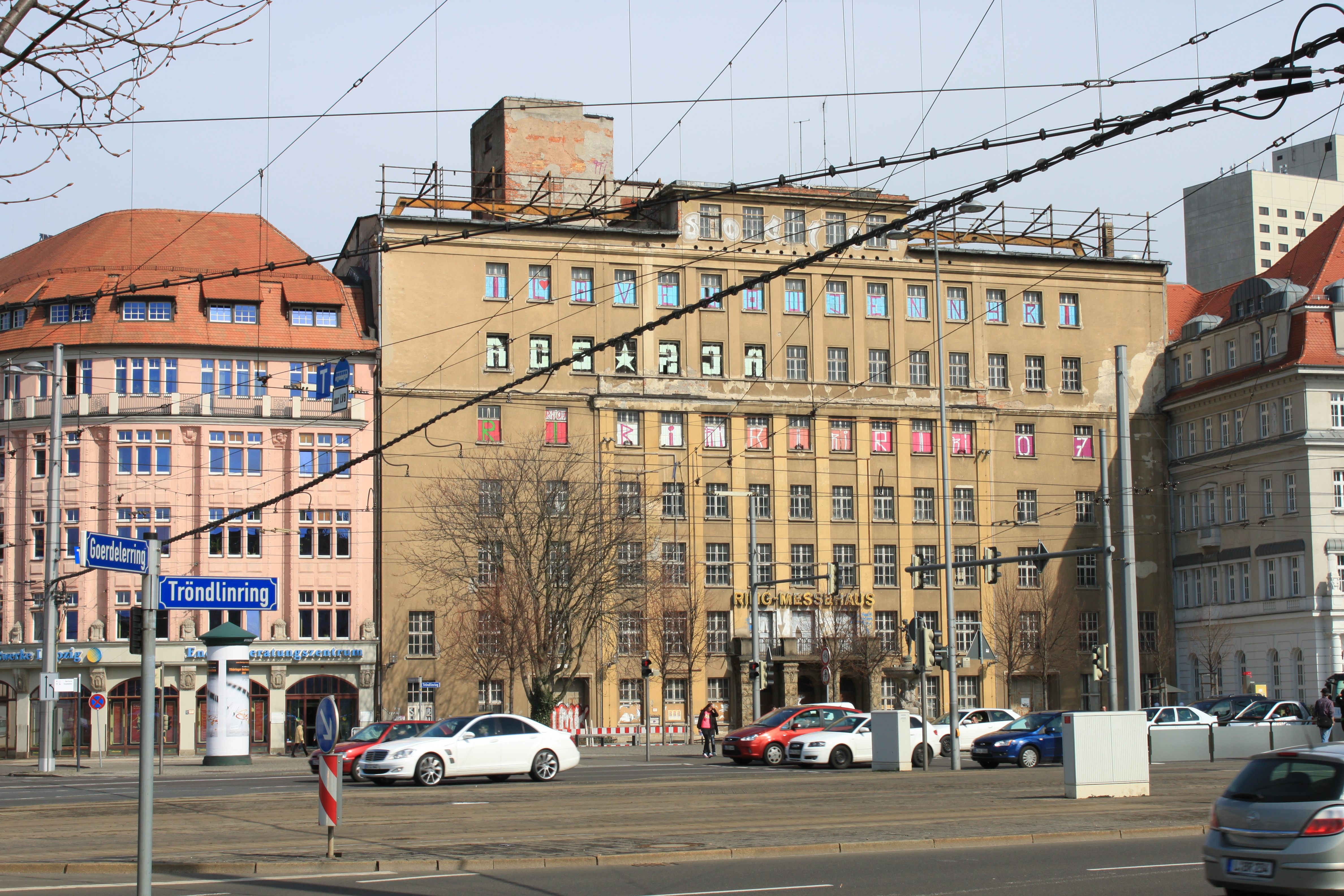 Ring-Messehaus in Leipzig